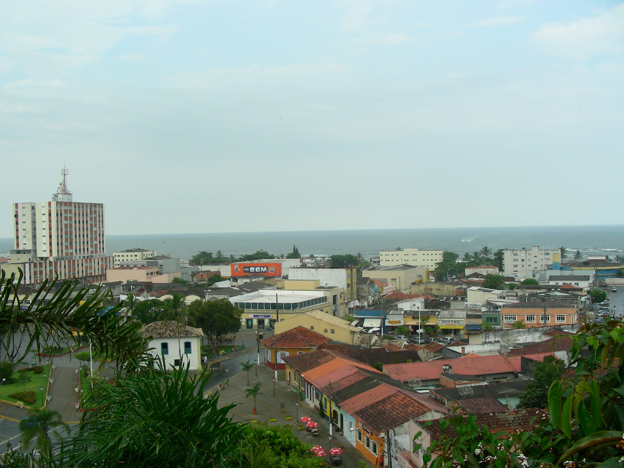 Itanhaem, Sao Paulo, Brasil, Brazil. View from the monastery.